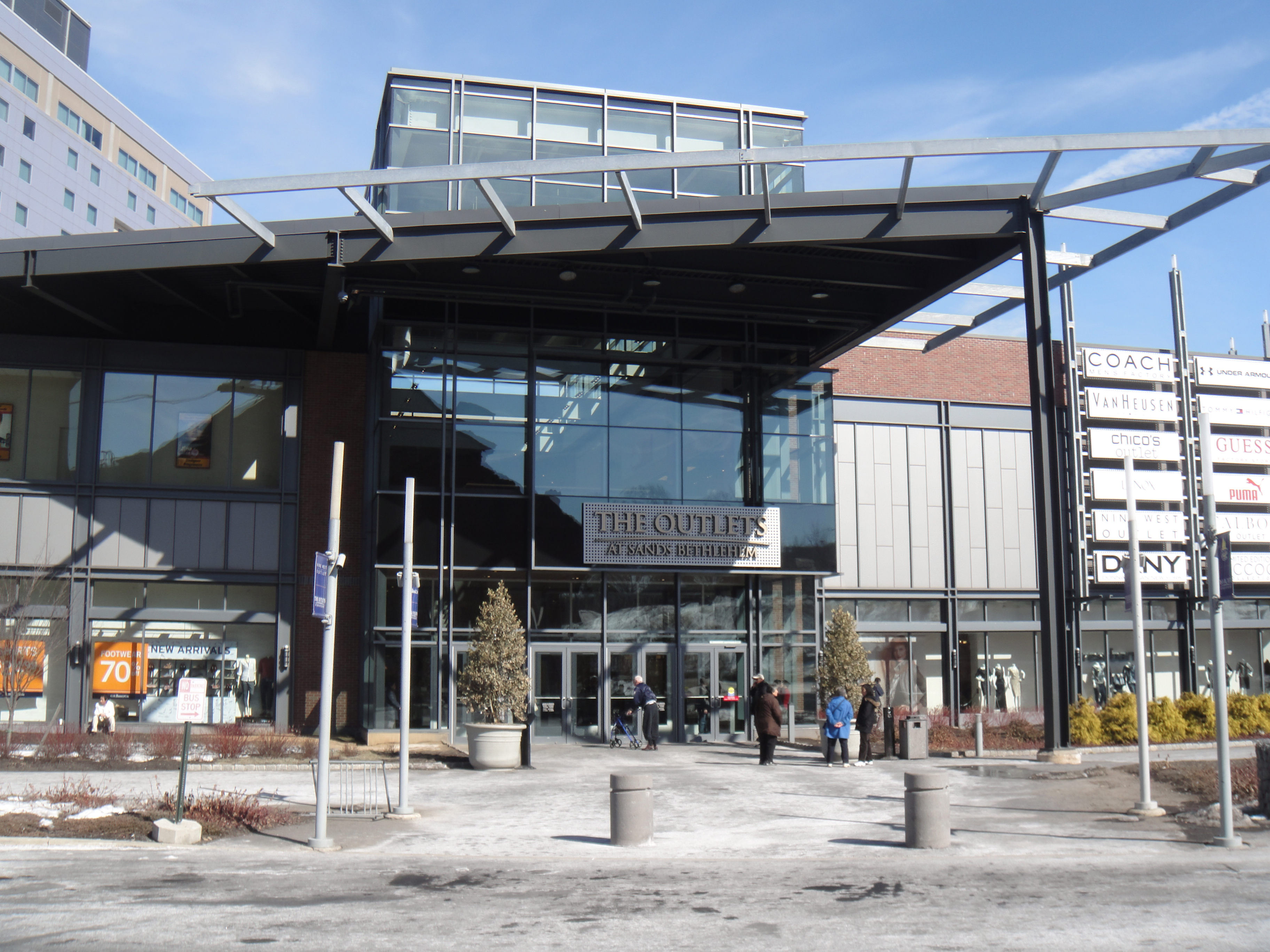 View of the main entrance to the The Outlets at Sands Bethlehem.